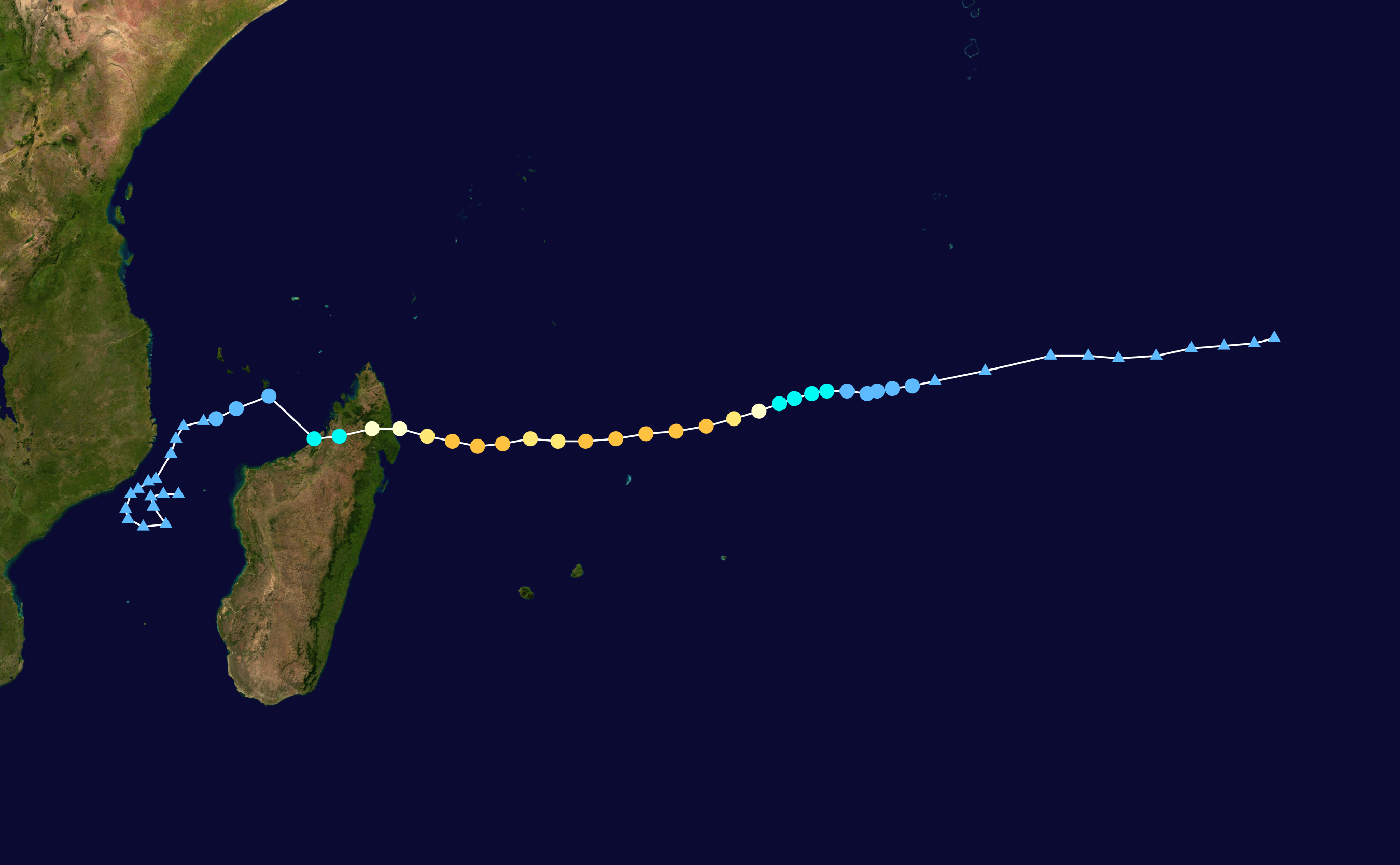 Track map of Intense Tropical Cyclone Jaya of the 2006-07 South West Indian Ocean cyclone season. The points show the location of the storm at 6-hour intervals. The colour represents the storm's maximum sustained wind speeds as classified in the Saffir–Simpson scale (see below), and the shape of the data points represent the nature of the storm, according to the legend below. Saffir–Simpson scale Tropical depression≤38 mph≤62 km/h Category 3111–129 mph178–208 km/h Tropical storm39–73 mph63–118 km/h Category 4130–156 mph209–251 km/h Category 174–95 mph119–153 km/h Category 5≥157 mph≥252 km/h Category 296–110 mph154–177 km/h Unknown Storm type Tropical cyclone Subtropical cyclone Extratropical cyclone / Remnant low / Tropical disturbance / Monsoon depression